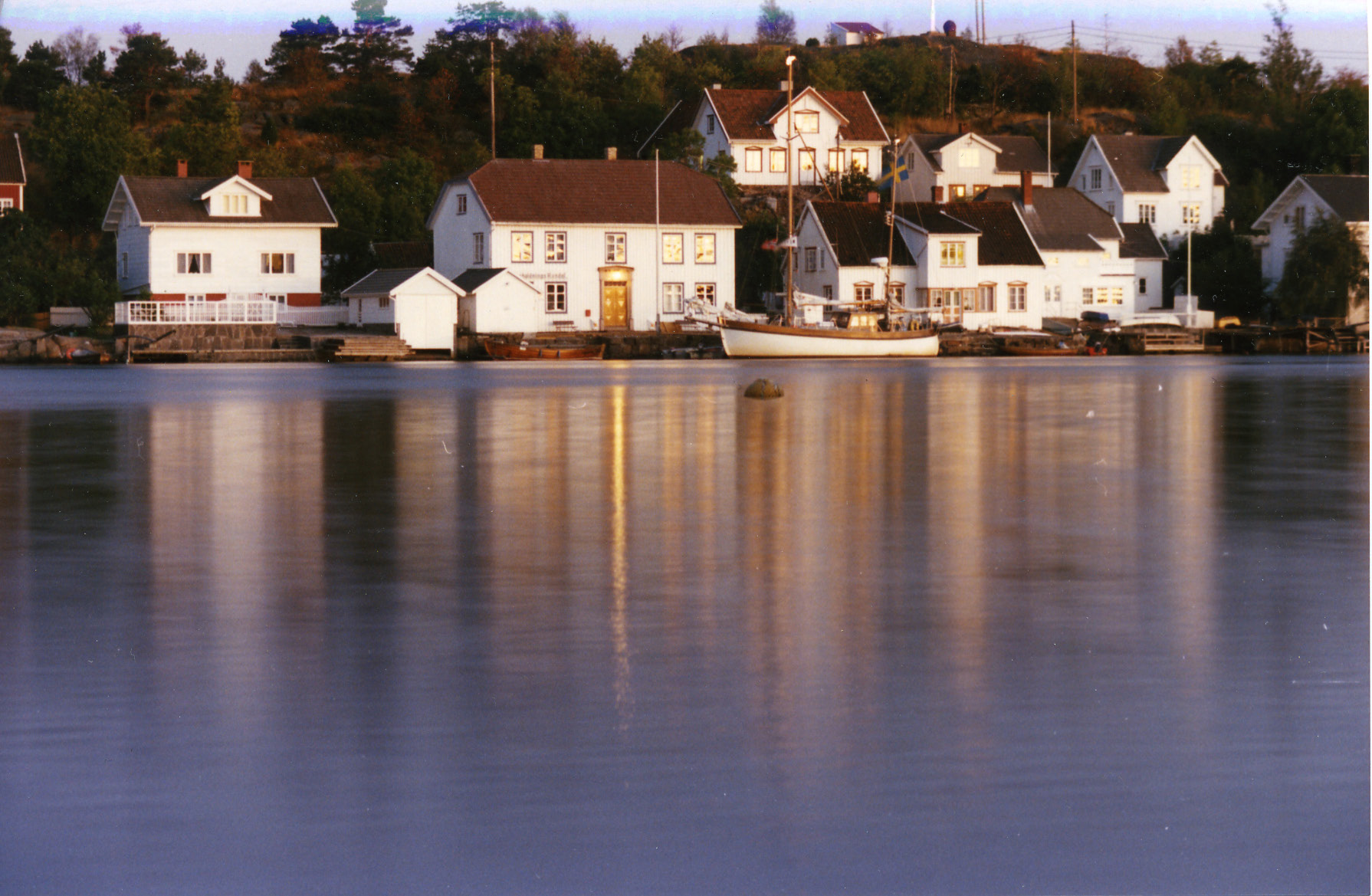 Lyngør in Norway; Photography by Leif KnutsenNorsk bokmål: Lyngørsida på Lyngør